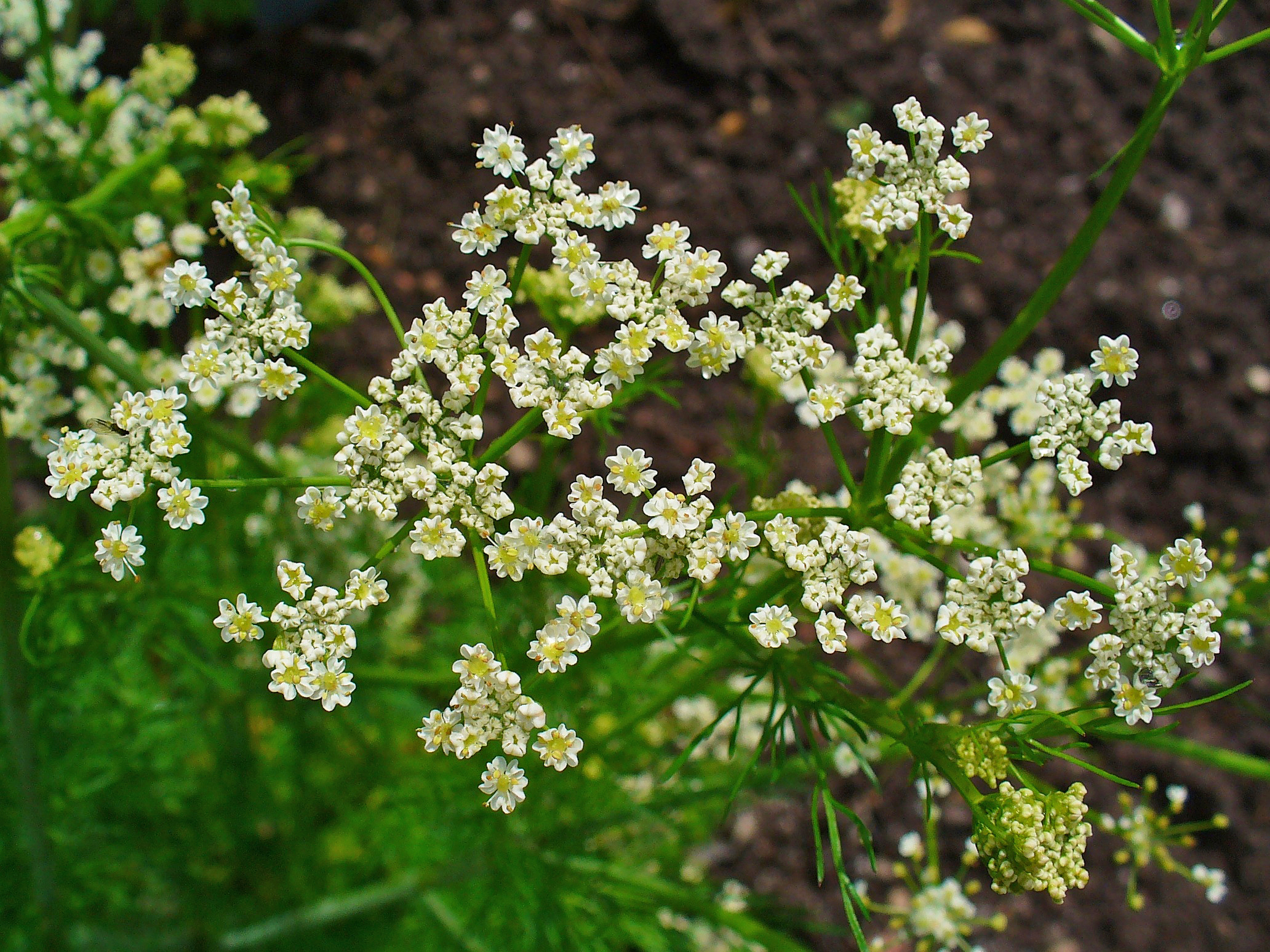 Carum carvi, Apiaceae, Caraway, Meridian Fennel, Persian Cumin, inflorescence; Botanical Garden KIT, Karlsruhe, Germany. The dried, ripe fruits are used in homeopathy as remedy: Carum carvi (Caru.)